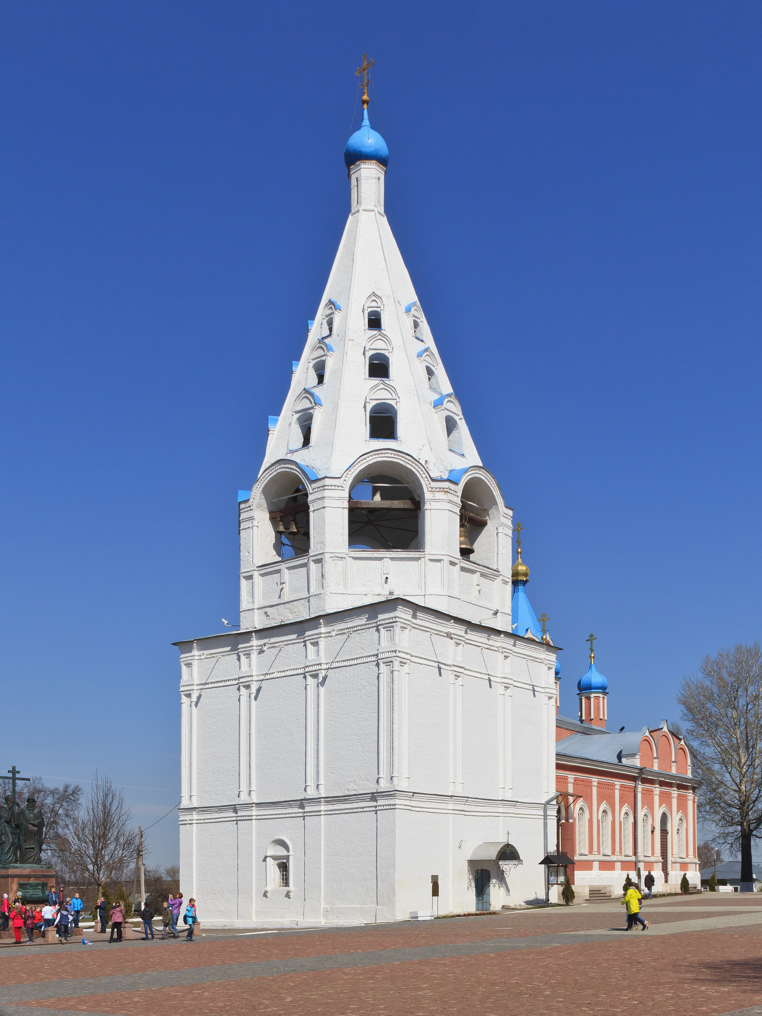 Bell tower of the Assumption Cathedral in the Kolomna Kremlin. Kolomna, Moscow Oblast, Russia.